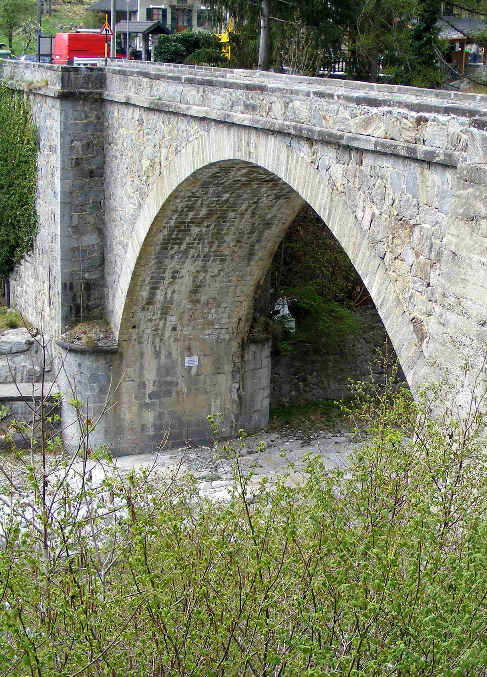 Forzo creek: bridge of SP47 della Val Soana (TO, Italy)